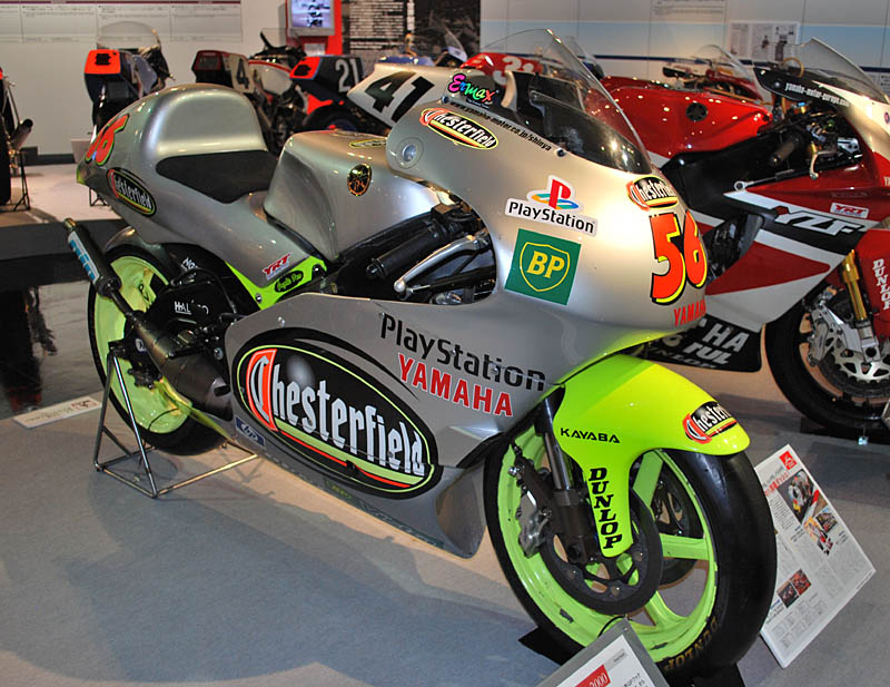 Yamaha YZR250 (2000, Shinya Nakano)